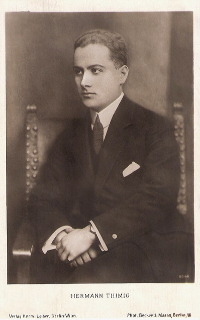 Portrait of Austrian stage and film actor Hermann Thimig (1890–1982) by Becker & Maass, Berlin